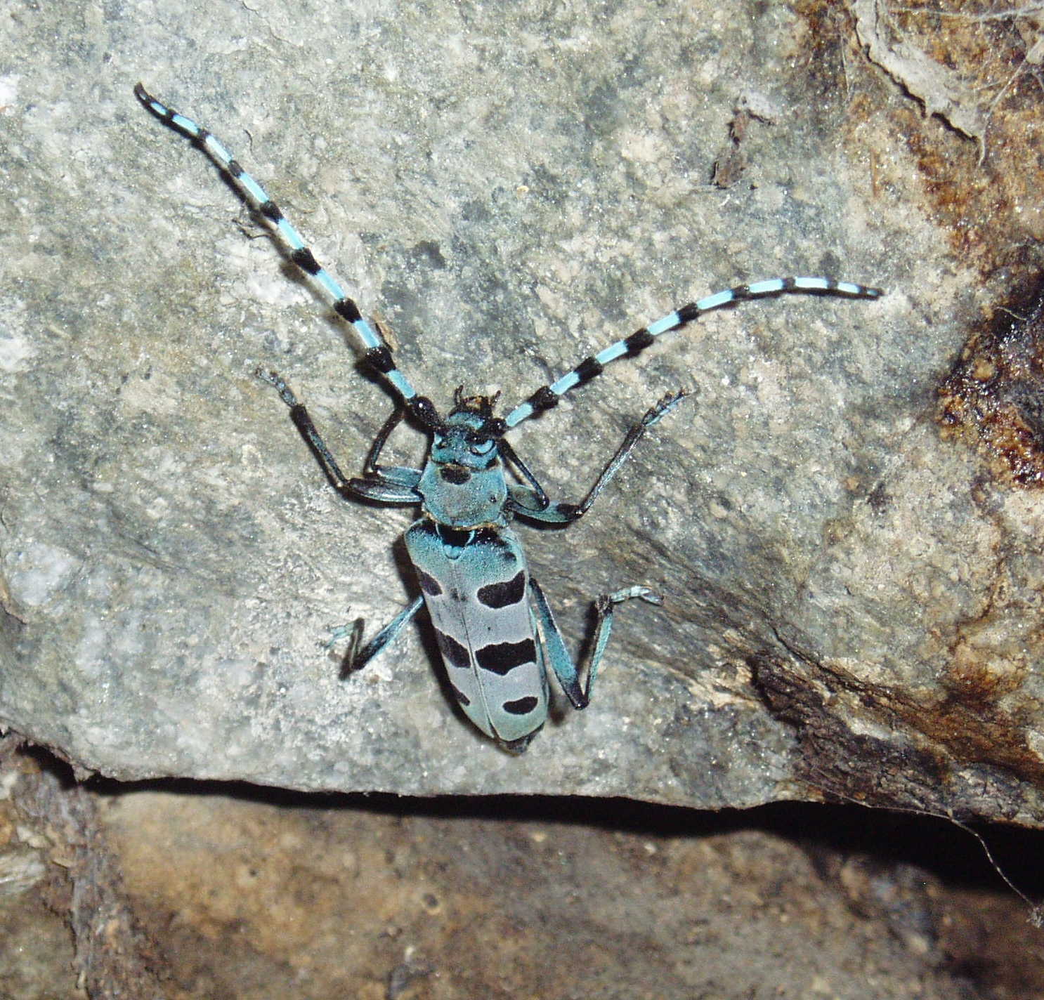 Description: the European insect "Rosalia alpina" photographed in the Valdieri Spa, Italy (summer 2004) Author: Sickdevice (me)